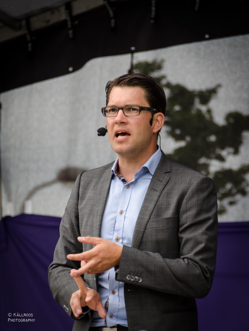 Jimmie Åkesson, party leader for Sverigedemokraterna, speaks in Borgholm, Sweden.